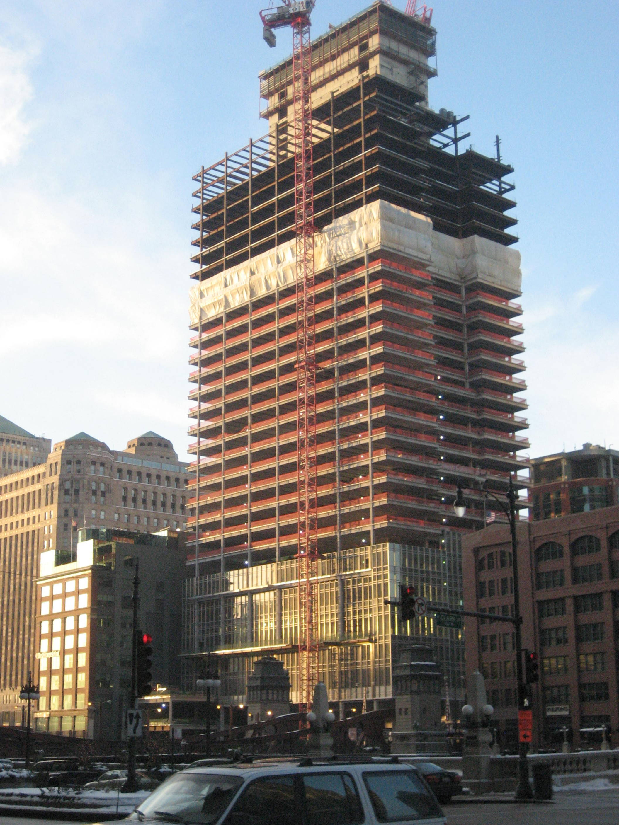 Construction photo of 300 North LaSalle building.